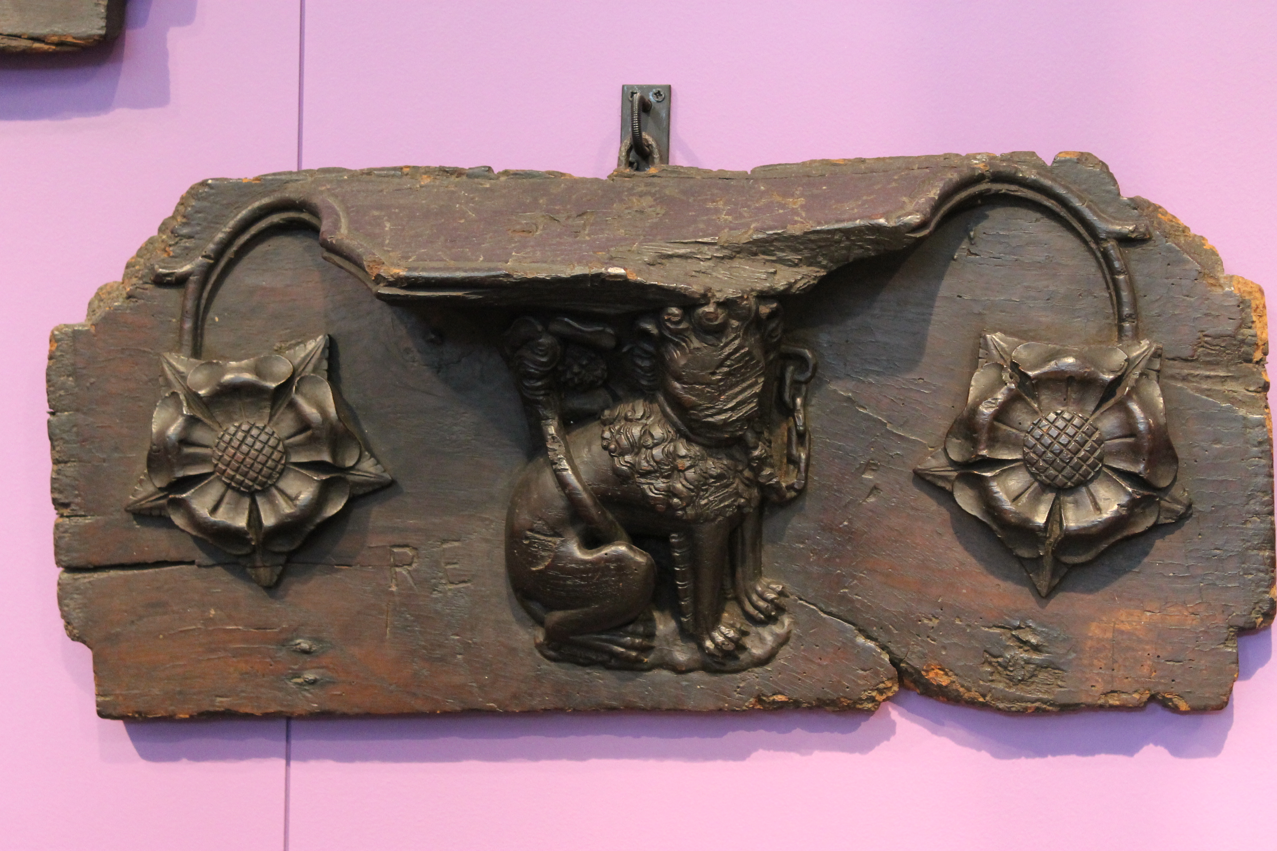 Misericords from Whitefriars, Coventry on display in Herbert Art Gallery and Museum.